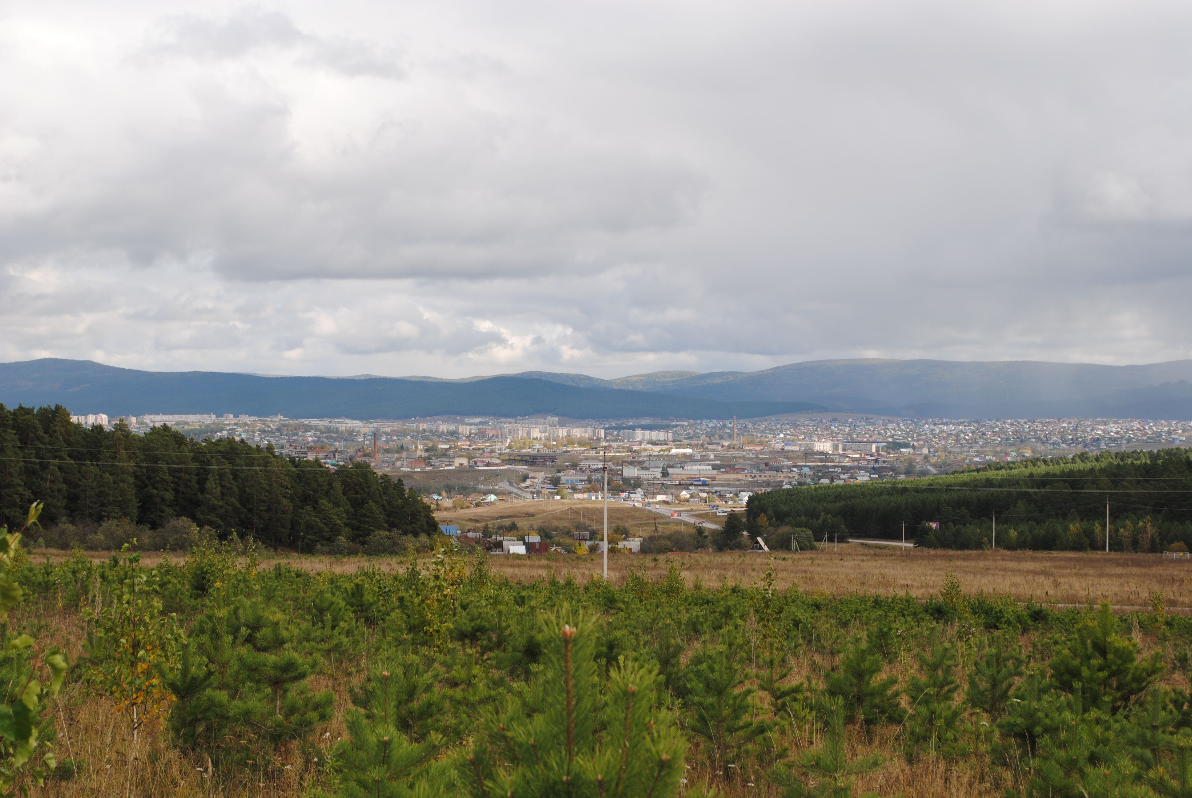 View of BeloretskБашҡортса: Белорет